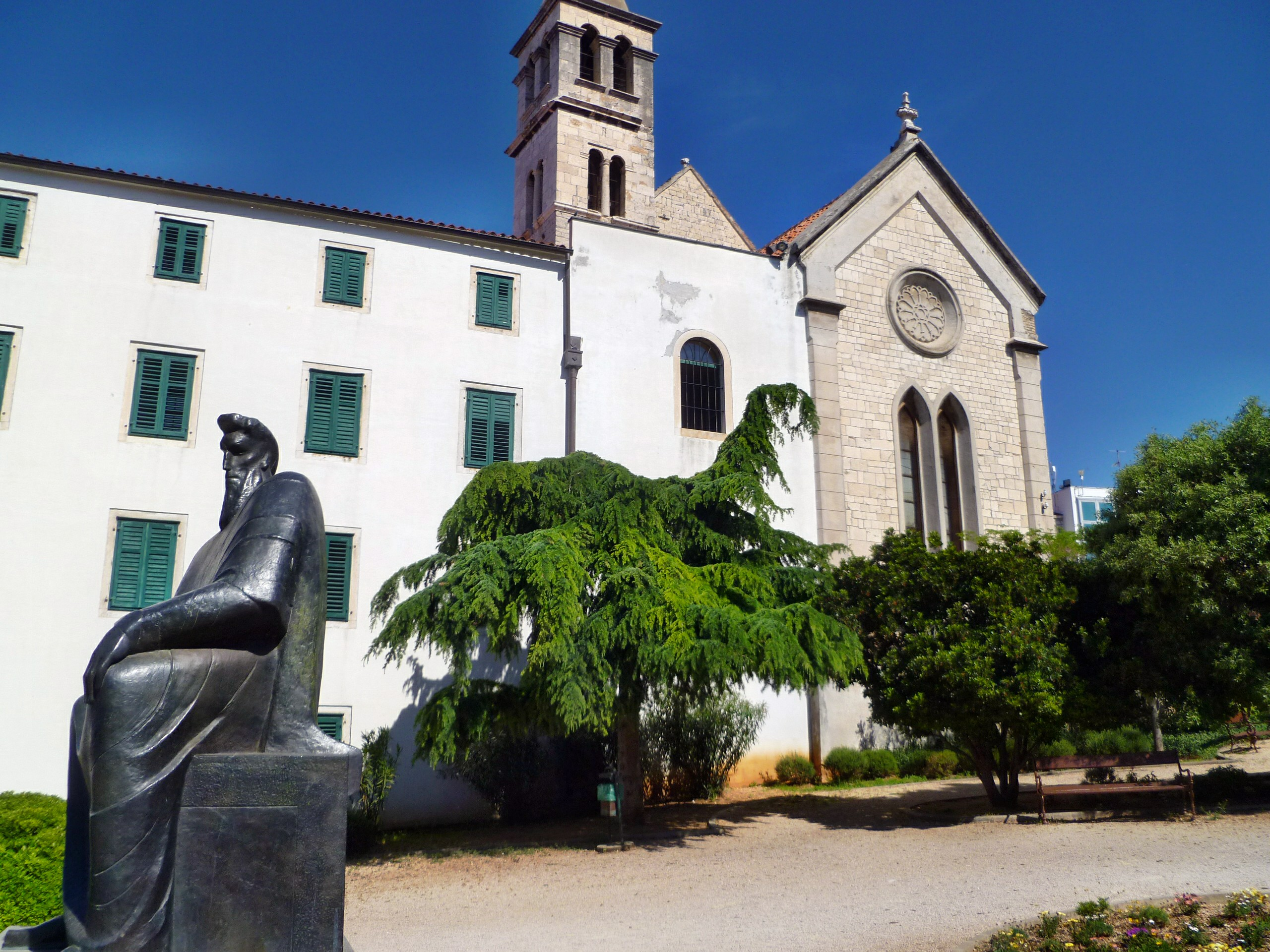 Church of St. Frane; Statue of King Petar Krešimir IV; Šibenik, Croatia